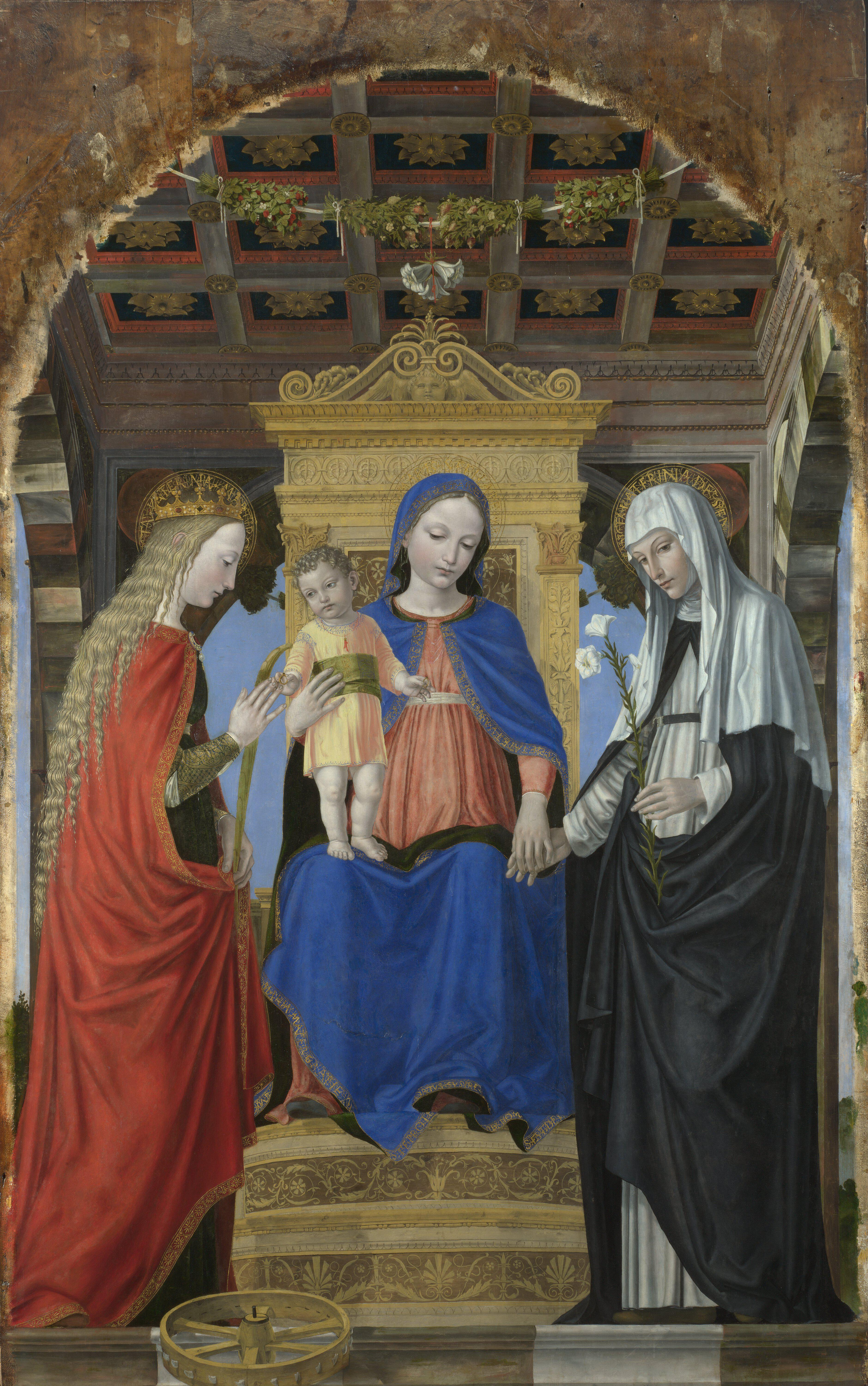 Saint Catherine of Alexandria on the left is identifiable by her attribute of the wheel on which she was tortured, while Saint Catherine of Siena is on the right holding a lily, a symbol of purity.